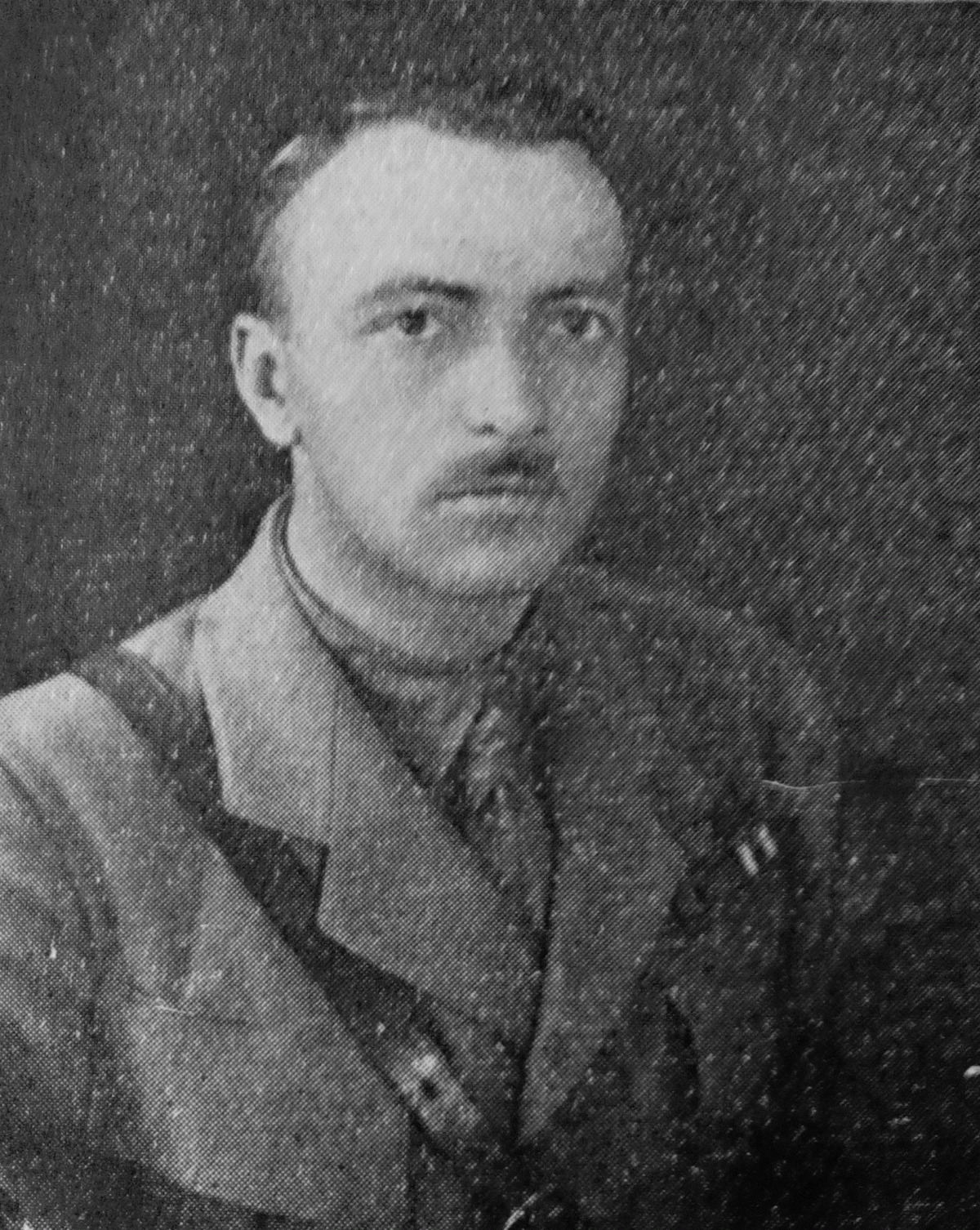 Vojtěch Vladimír Klecanda (* 15 November 1888 in Prague - 22 April 1947 in Prague) was a Czech legionary, Czechoslovak officer and general. He was among the first Czech volunteers - officers of the Czech Družina - ancestor of Czechoslovak legions in Russia. He was appointed of 11 September 1914 as commander of the Second platoon, in the rank of lieutenant. The author of the photo is not known. Photo before 1915.